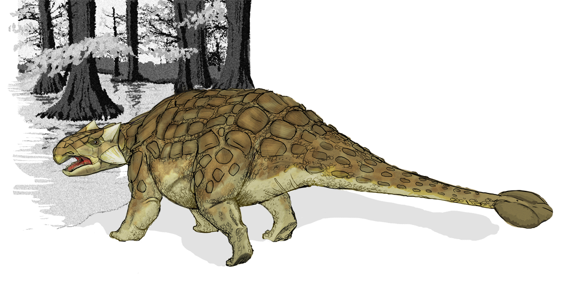 Possible appearance of a Ankylosaurus according to the few bones found. Based on skeletal reconstruction in Carpenter 2004 and photographs of fossils.